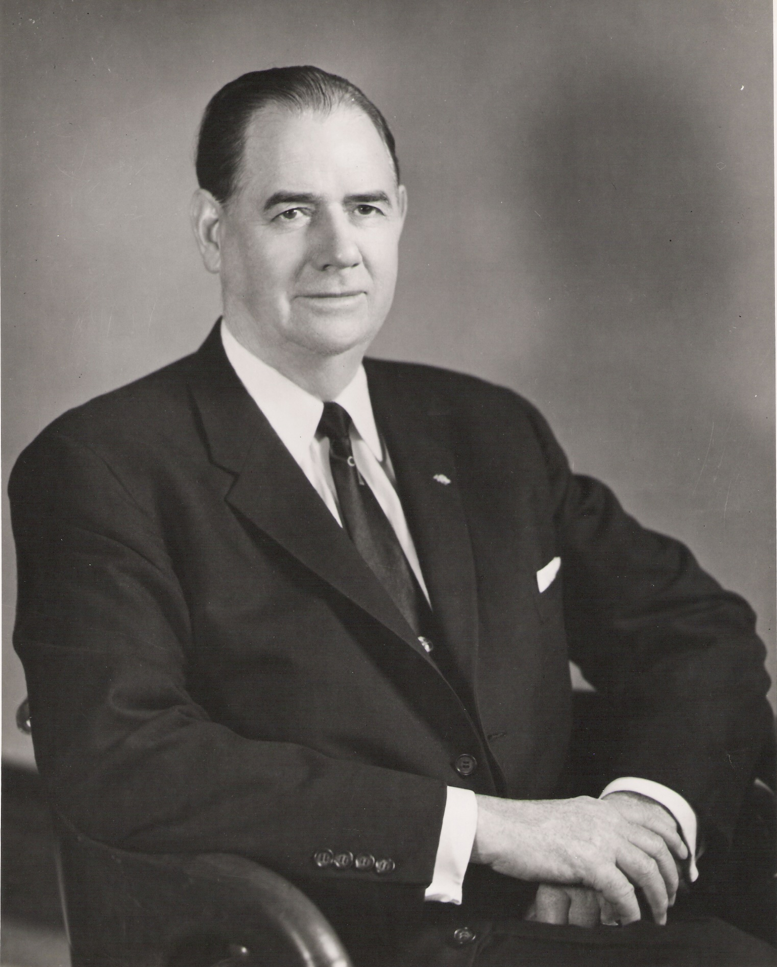 A seated portrait of Olin D. Johnston, former Governor and Senator from South Carolina.